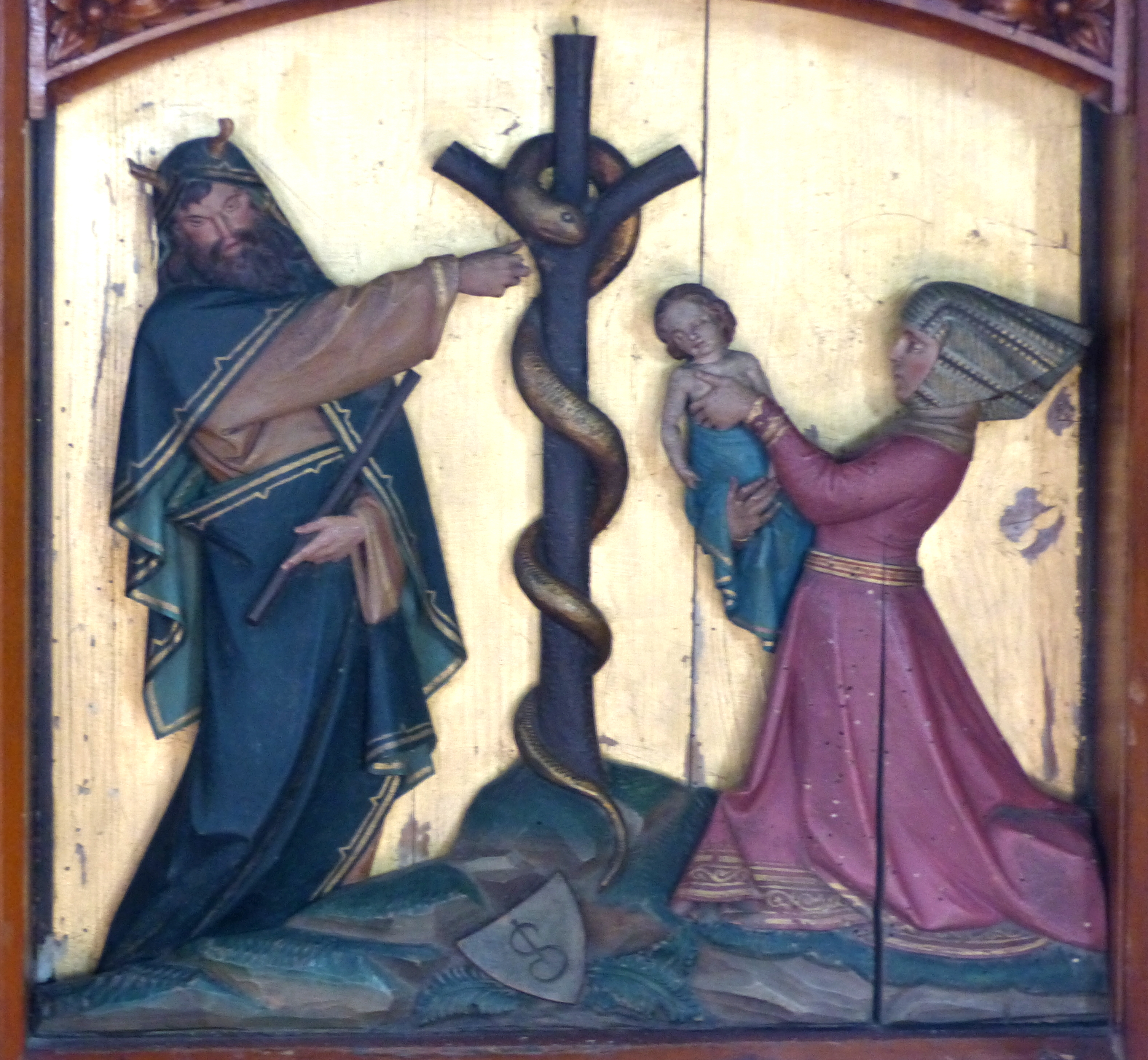 Sankt Gotthard ( Upper Austria ). Saint Gotthard parish church - High altar ( 1893 ) by Josef Keppllinger: Moses and the Brass Serpent